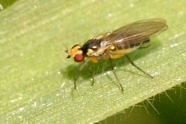 Cryptonevra flavitarsis from Commanster, Belgian High Ardennes .